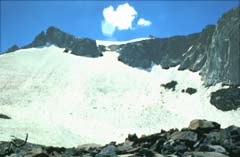 Lyell Glacier is the largest remaining glacier in the Yosemite National Park